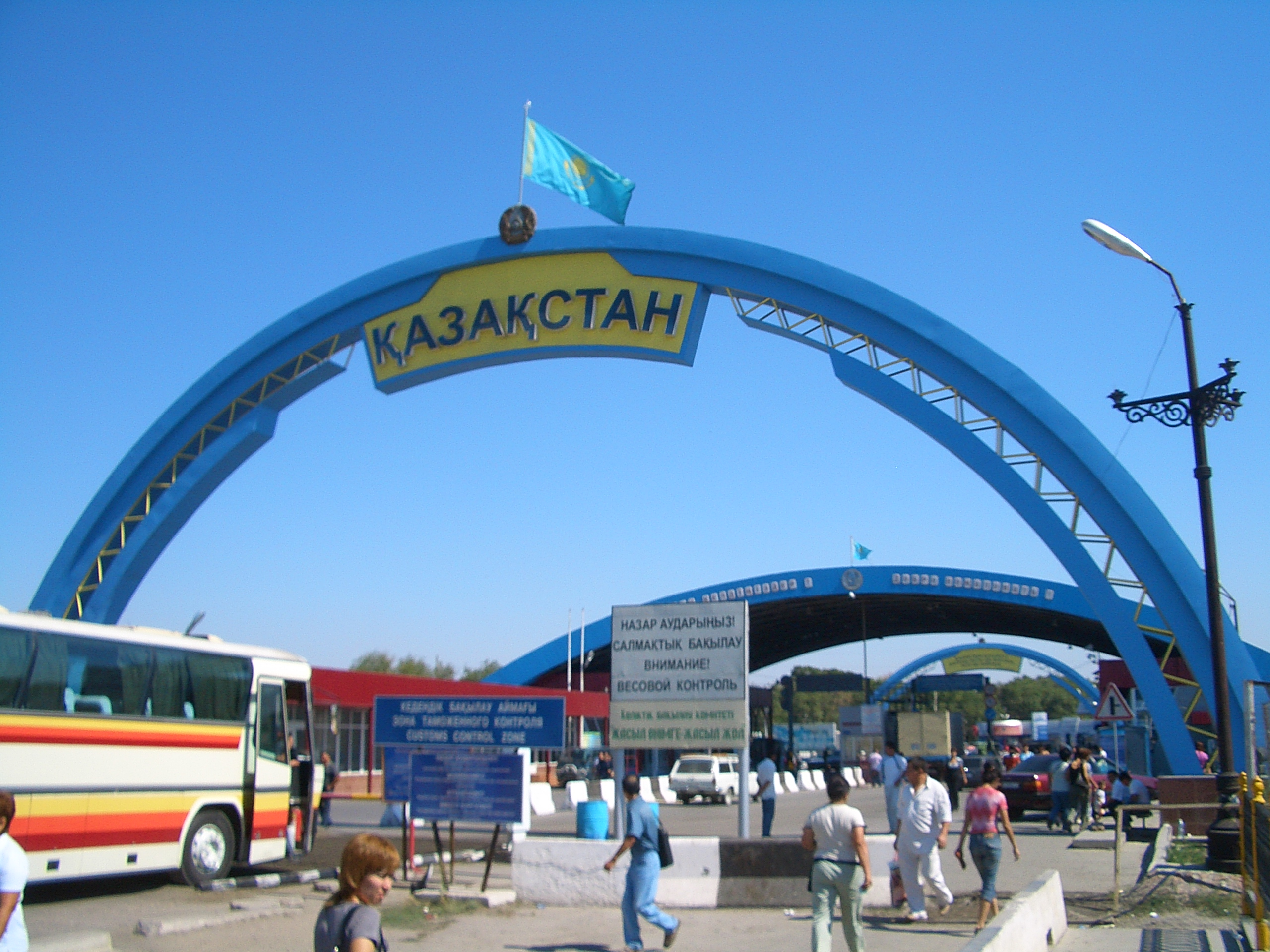 Kazakhstan's front gate at Korday border crossing.